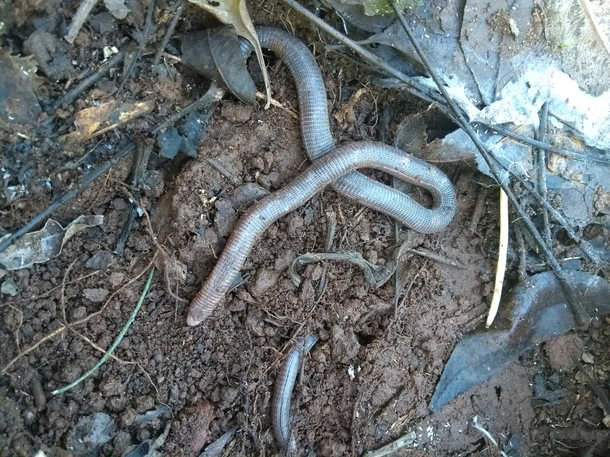 Munoa Worm Lizard (Amphisbaena munoai)